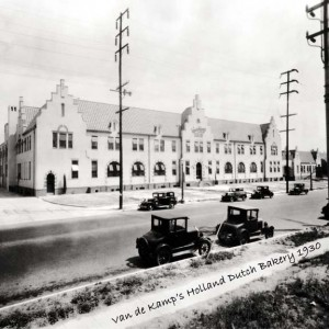 This photo is of the Van de Kamp's Bakery Building in 1930 while it was under construction